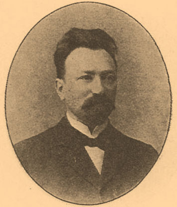 Illustration from Brockhaus and Efron Encyclopedic Dictionary (1890—1907)